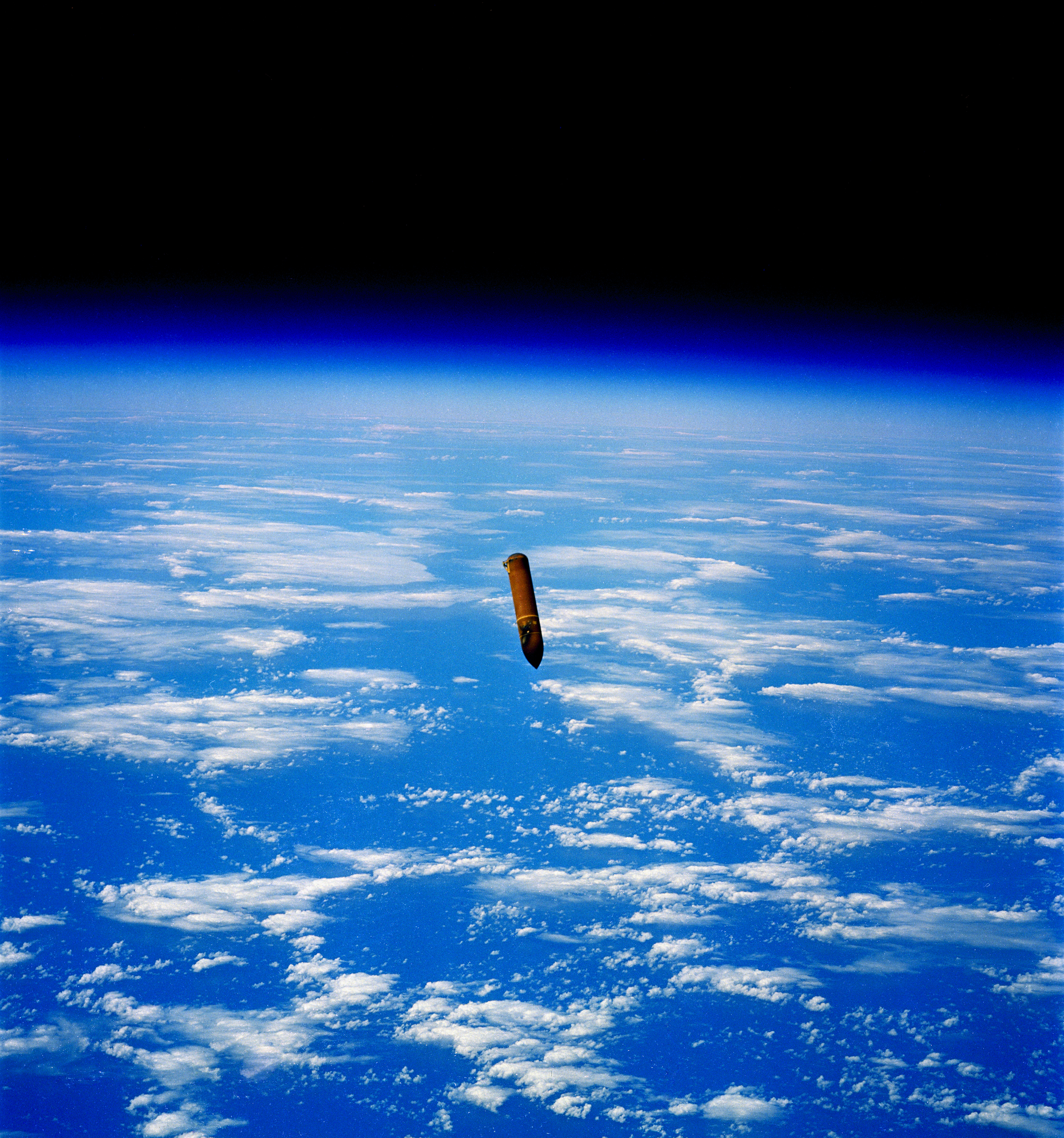 Onboard photo of the external tank after separation from Space Shuttle Discovery on STS-29.